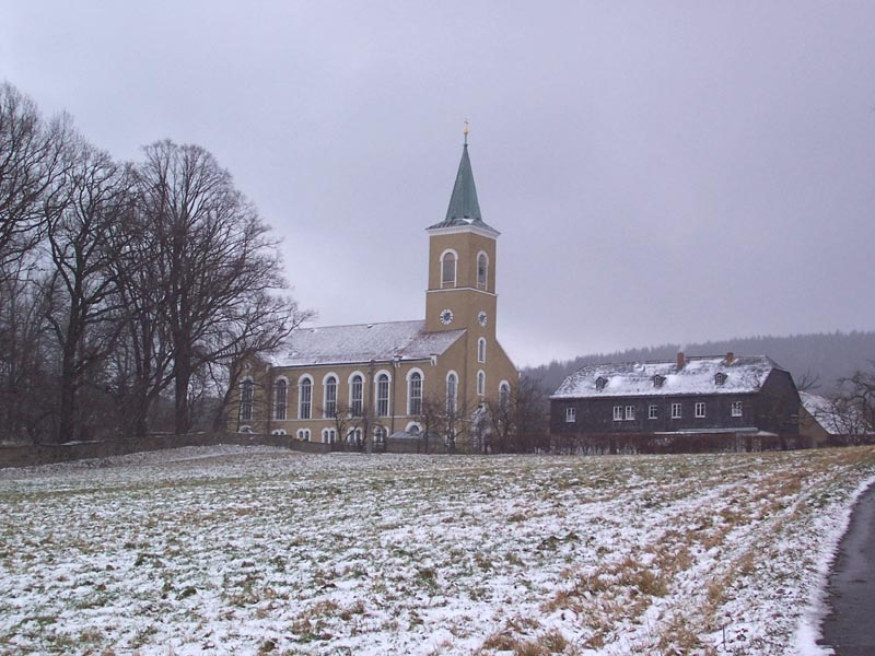 Crostau church, Germany